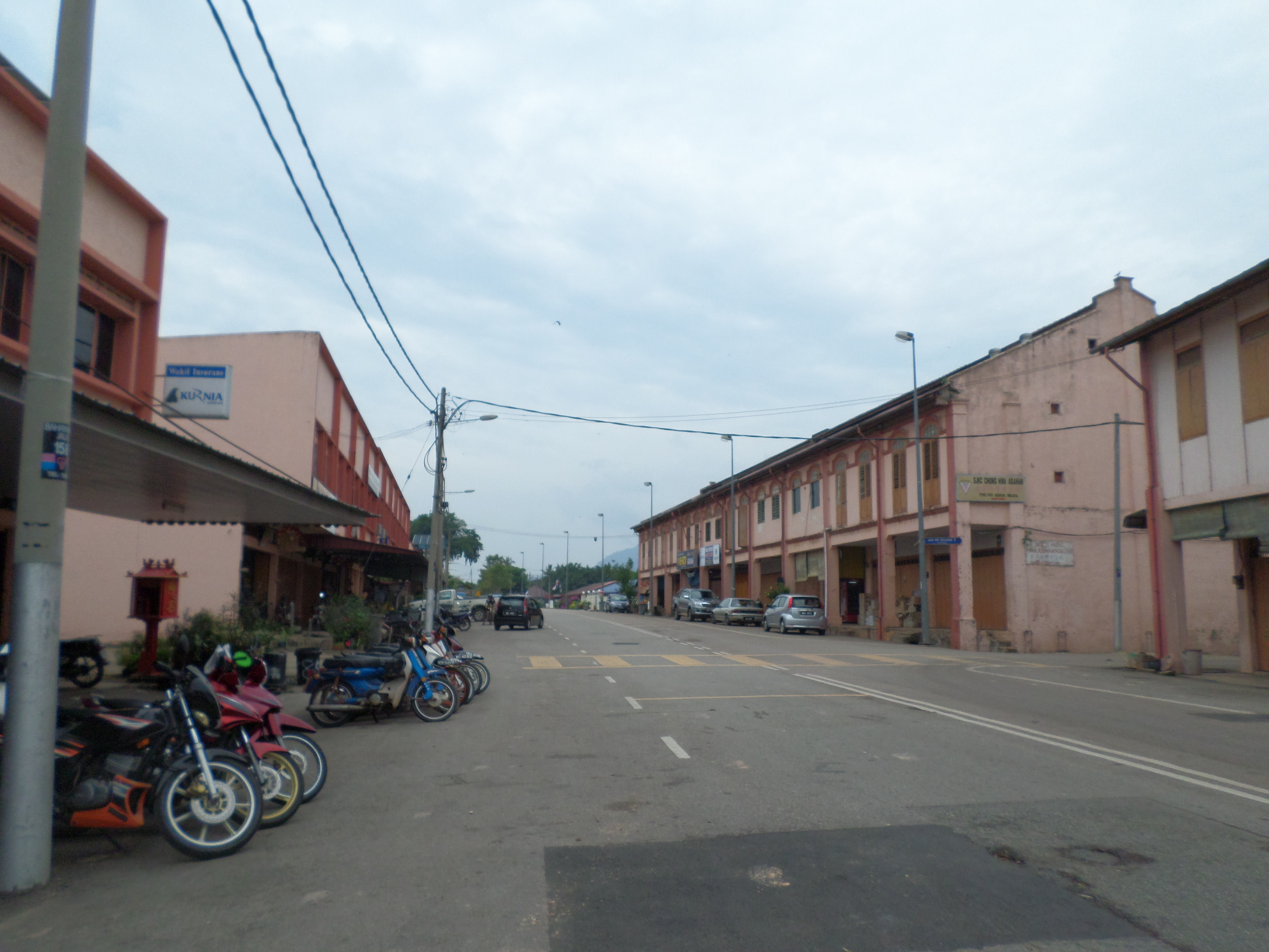 Asahan, Jasin, Melaka, MalaysiaBahasa Melayu: Asahan, Jasin, Melaka, Malaysia